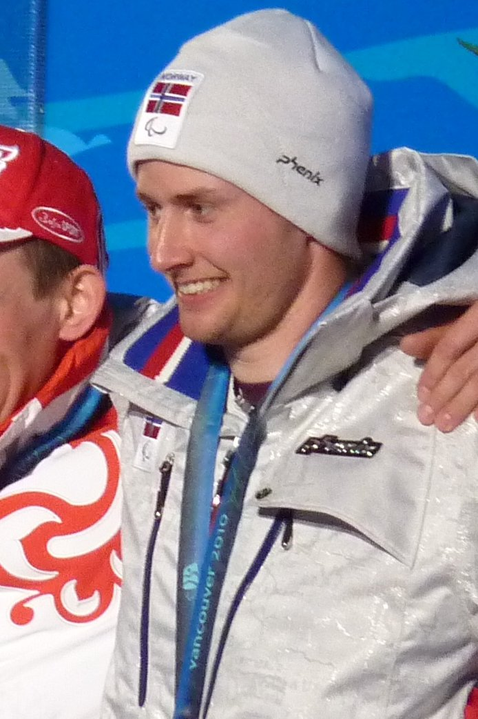 Nils-Erik Ulset of Norway takes the silver medal for biathlon, men's 3km Pursuit, standing, during the 2010 Paralympics in Vancouver